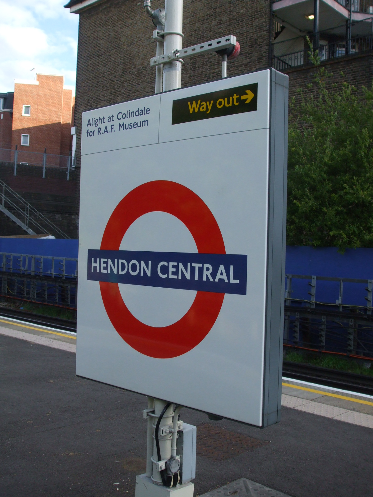 Roundel on Hendon Central tube station southbound platform face. Note advice regarding alighting at the next station north, Colindale, to access Hendon Royal Air Force Museum.